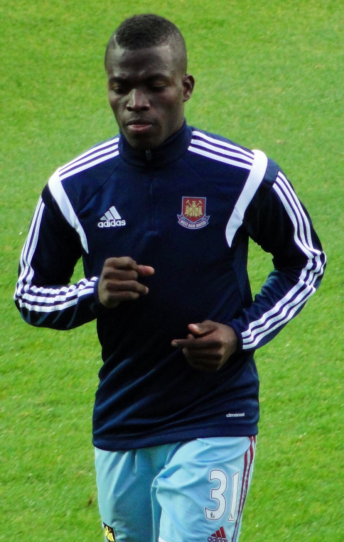 West Ham United's Enner Valencia warming up before their League Cup defeat to Sheffield United at the Boleyn Ground, August 2014.